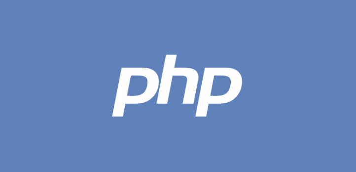 The non-official logo of the PHP scripting language.